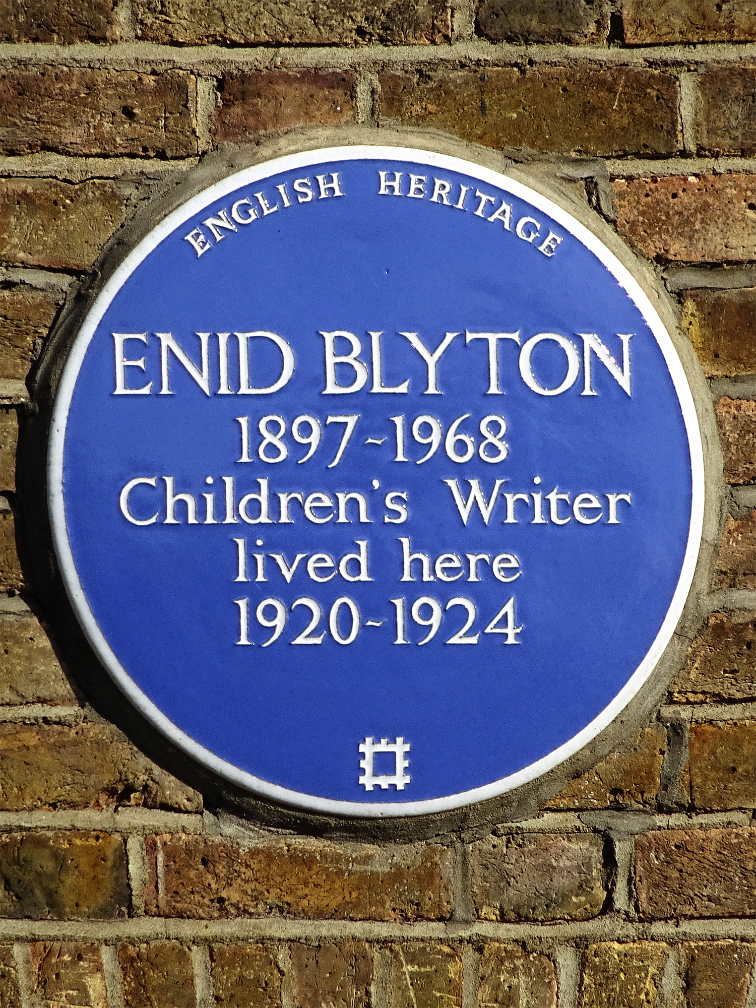 Blue plaque erected in 1997 by English Heritage at 207 Hook Road, Chessington KT9 1EA, Royal Borough of Kingston upon Thames